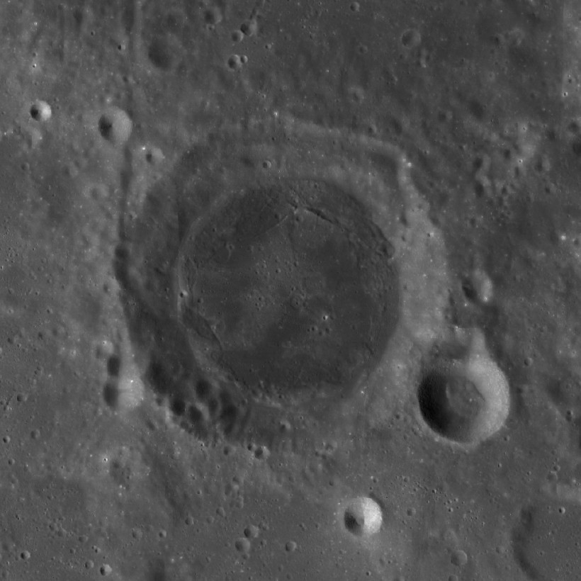 Voskresenskiy crater, on the moon. LRO Wide Angle Camera mosaic.